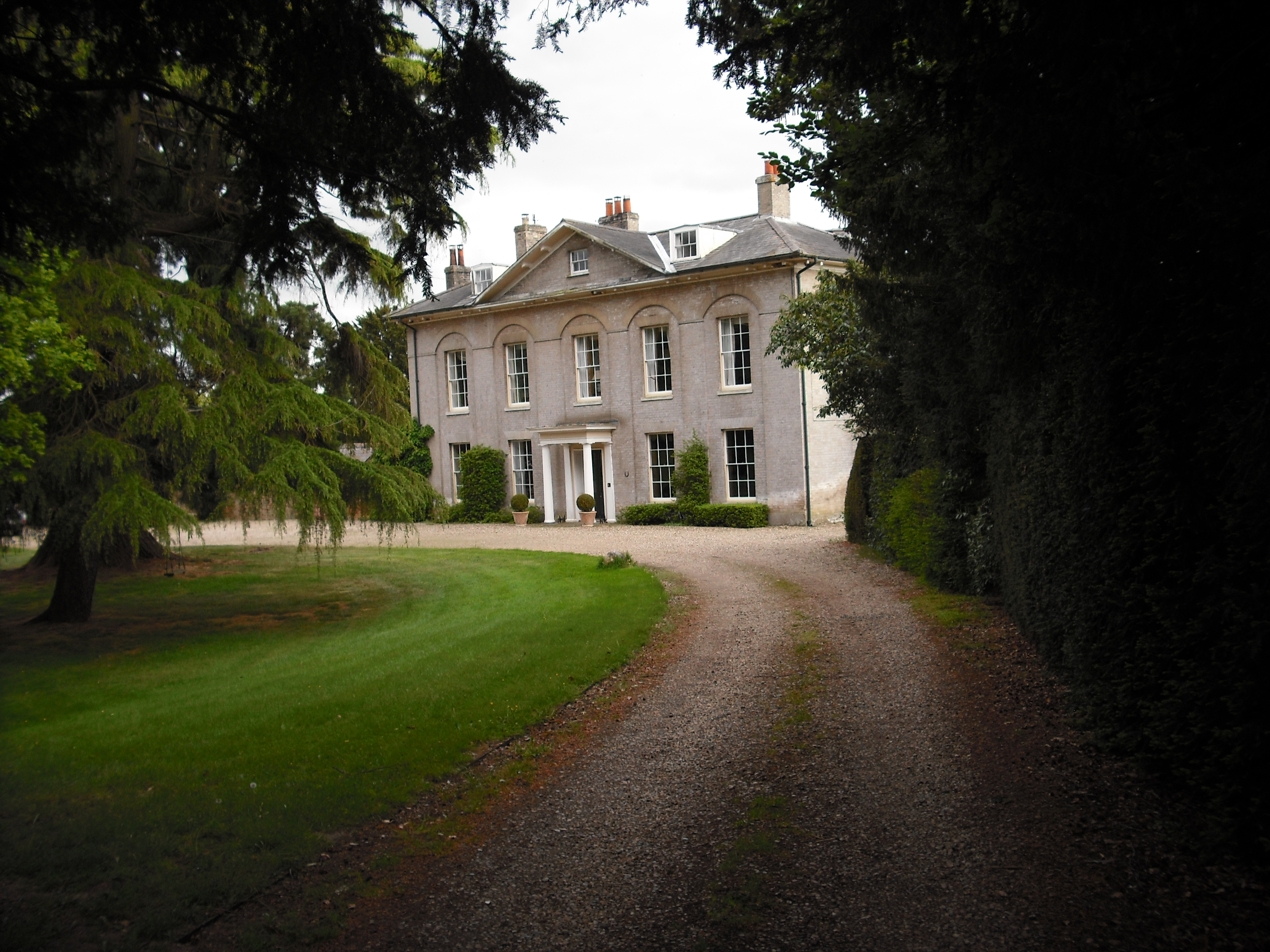 Higham Hall, Higham, Babergh, Suffolk